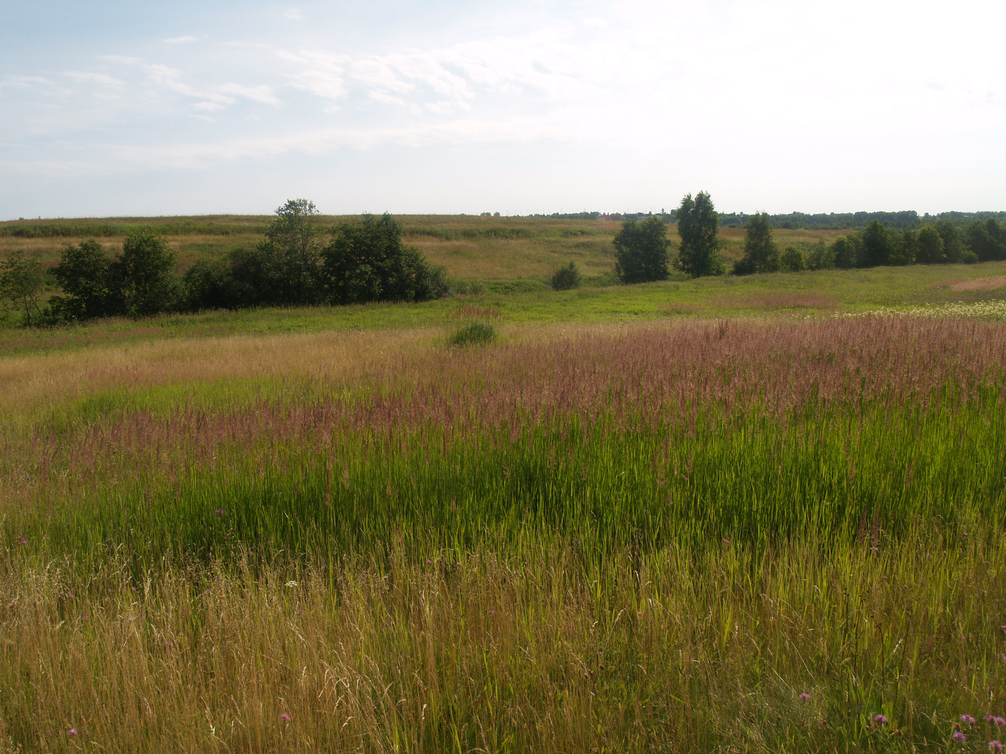 Wet meadow in Smolensk Oblast (region), Russia